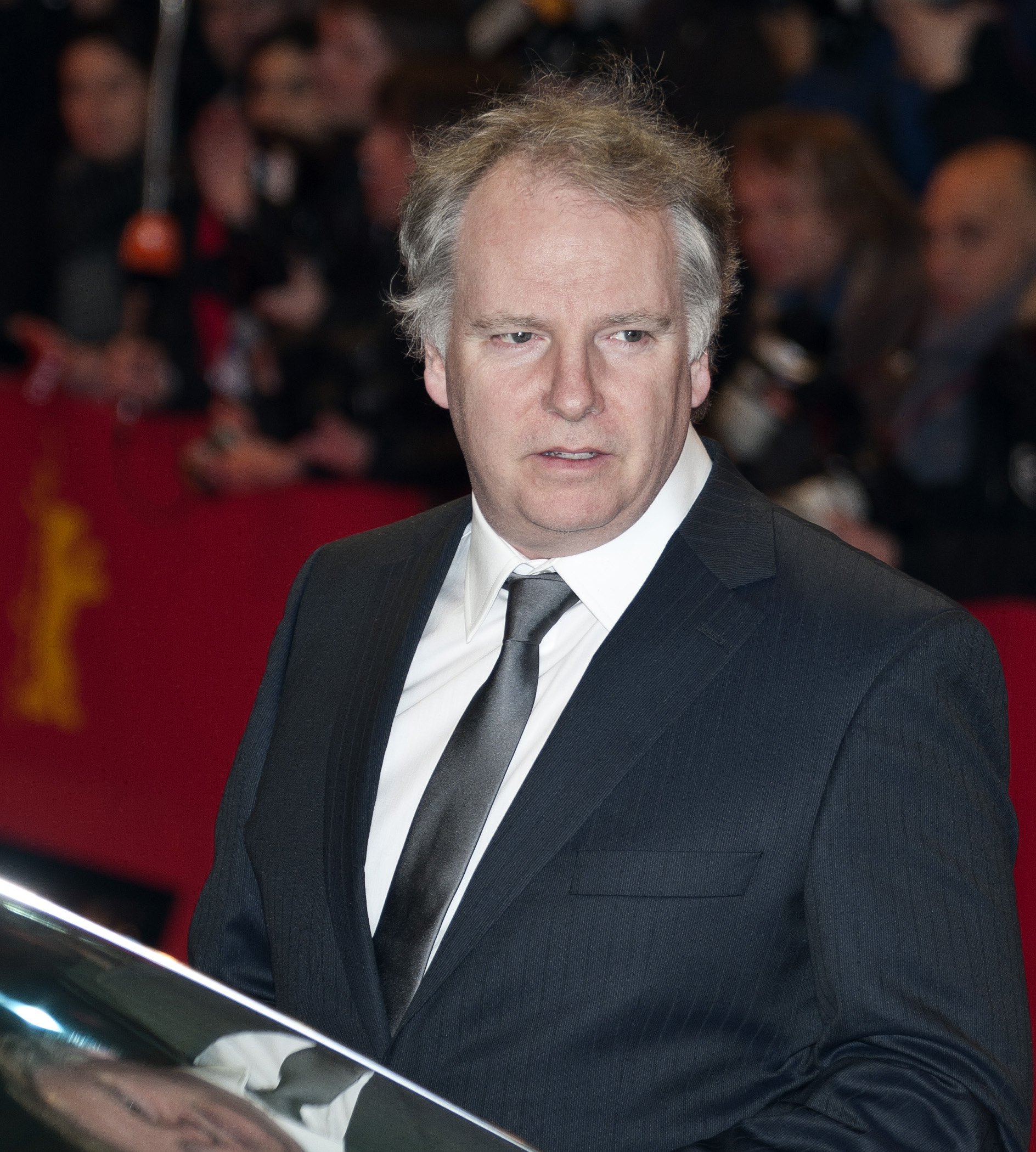 Guy Maddin, Canadian director and writer, member of the international jury of the Berlinale 2011, arriving at the premiere of True Grit